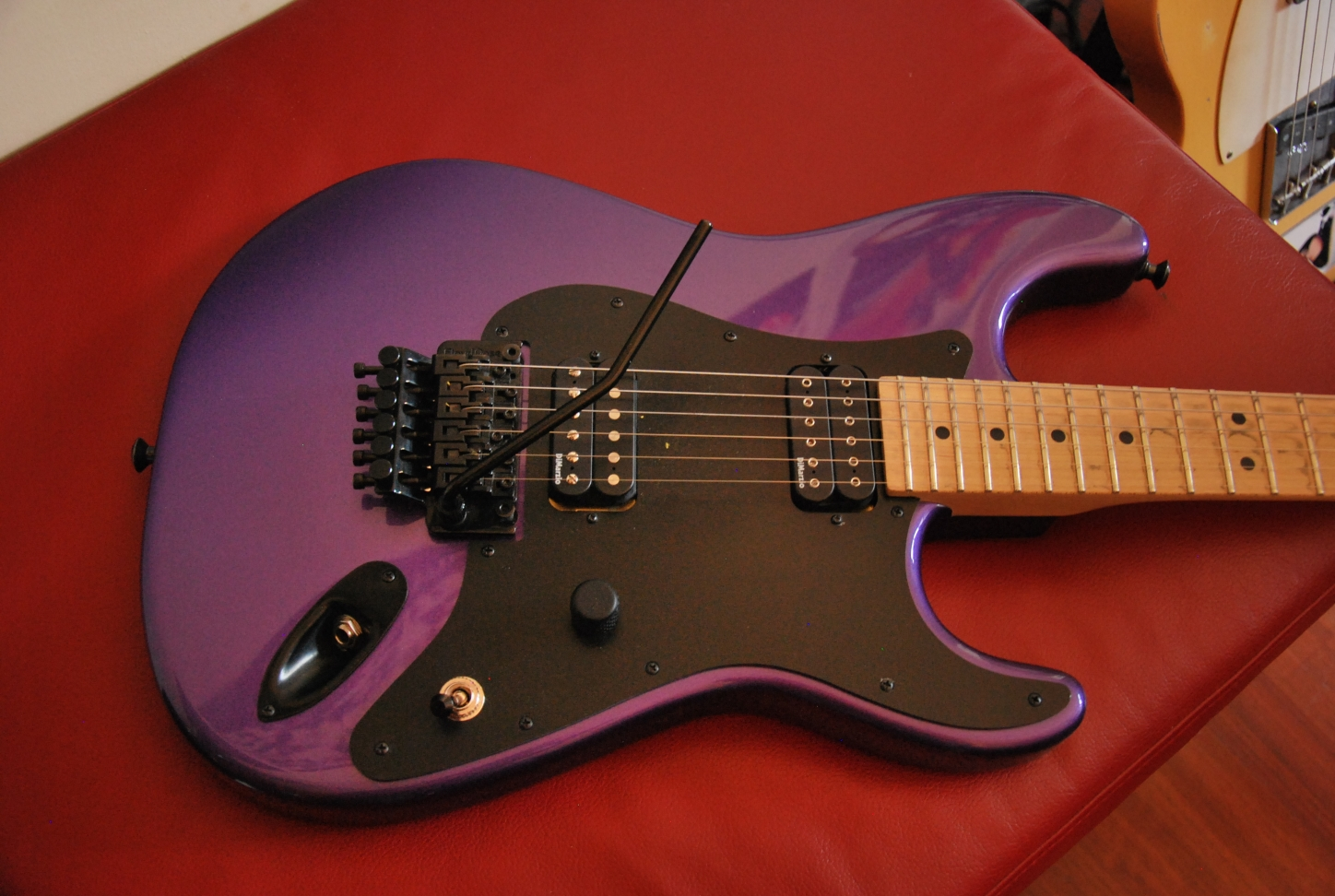 Charvel So-Cal Style 1 HH Candy Plum Charvel So-Cal Style 1 HH Candy Plum Original Floyd Rose Tremolo System, DiMarzio Tone Zone and Evolution Pickups